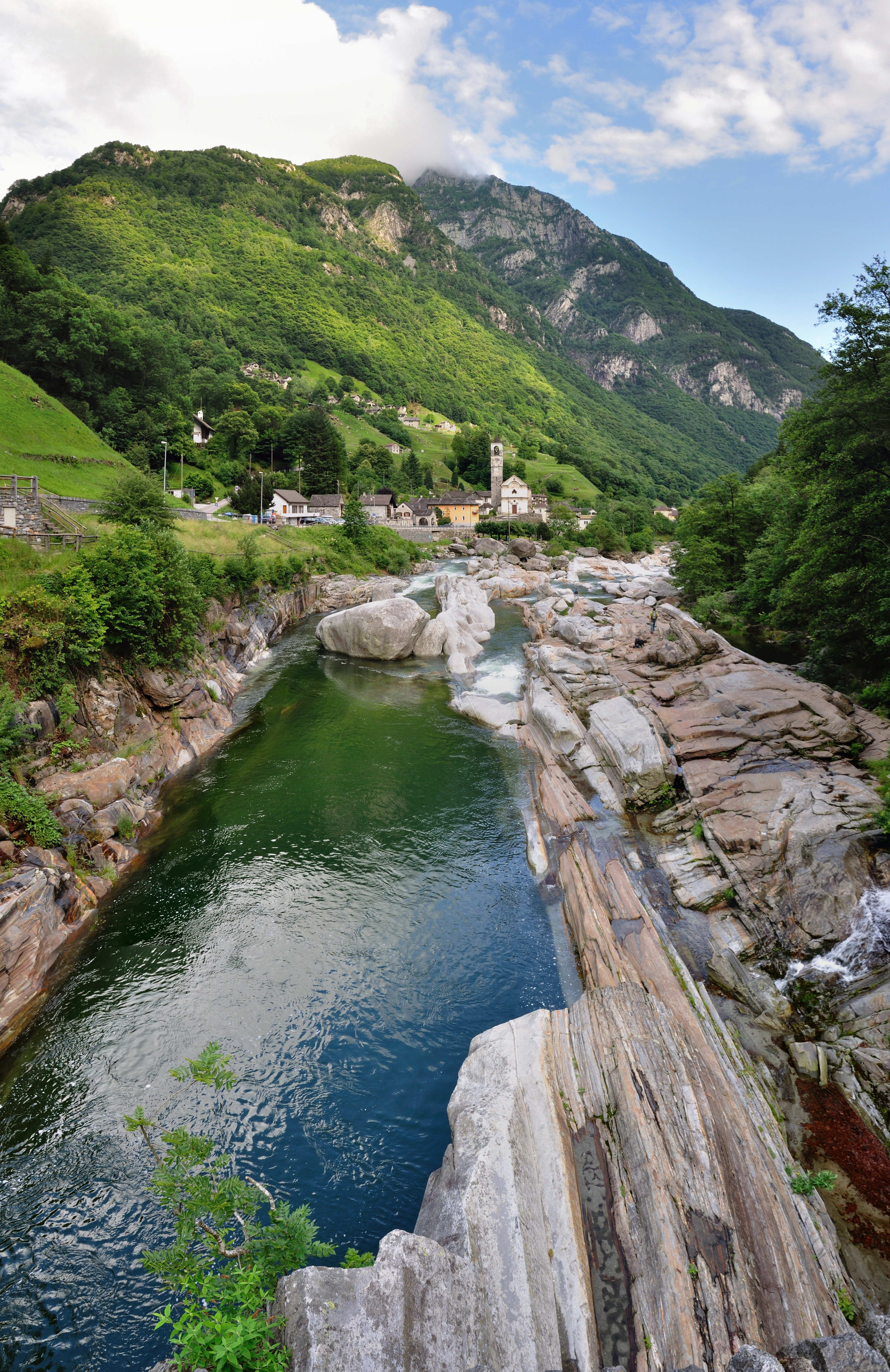 Switzerland, Ticino, impressions from Verzasca valley